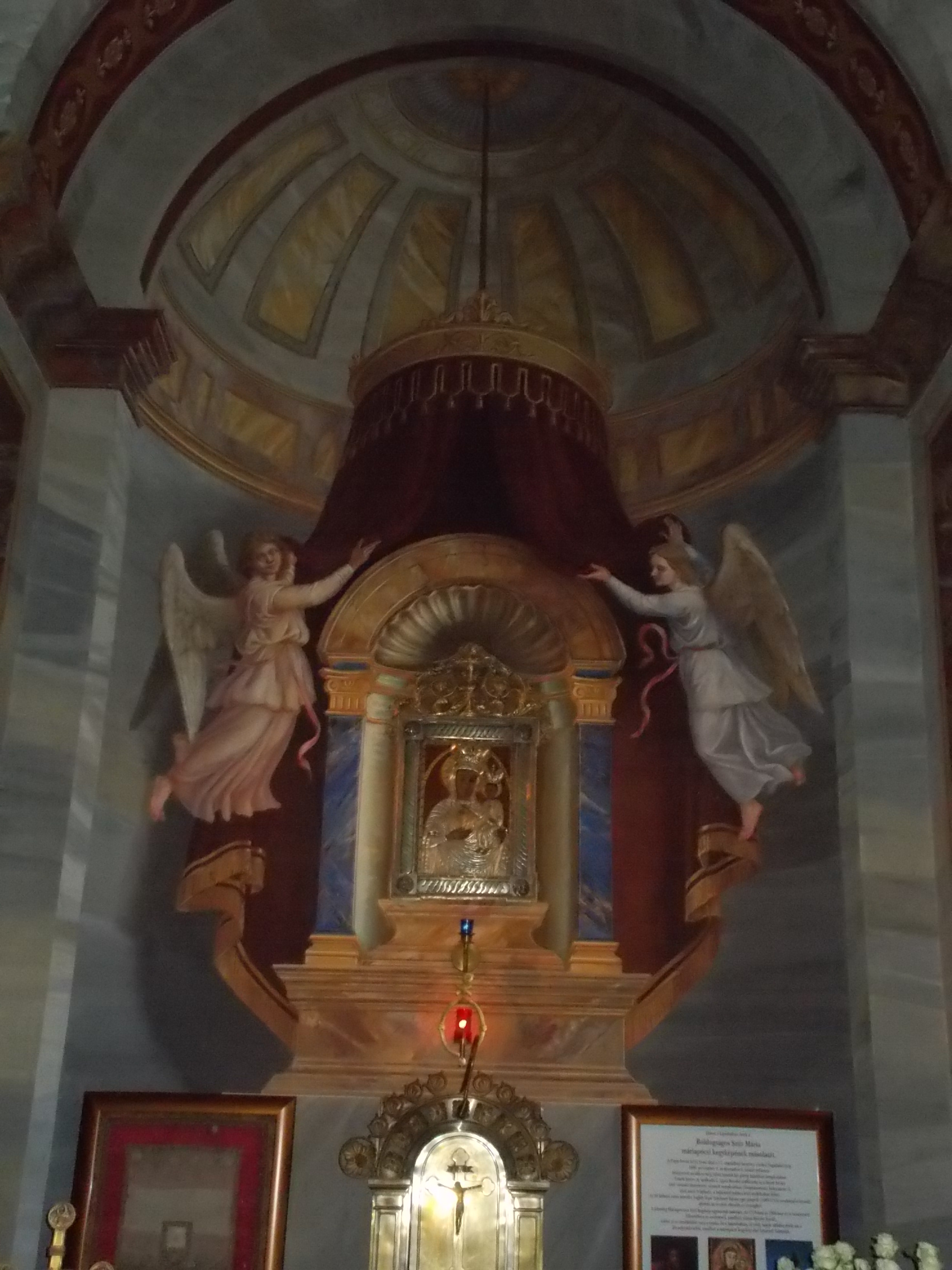 Replica of Máriapócs Blessed Virgin Mary painting. Interior of the Eger's Basilica. - Eszterházy Square, Downtown, Eger, Heves County, Hungary.